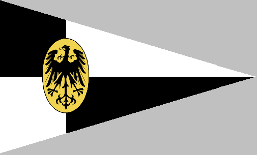 yacht club flag